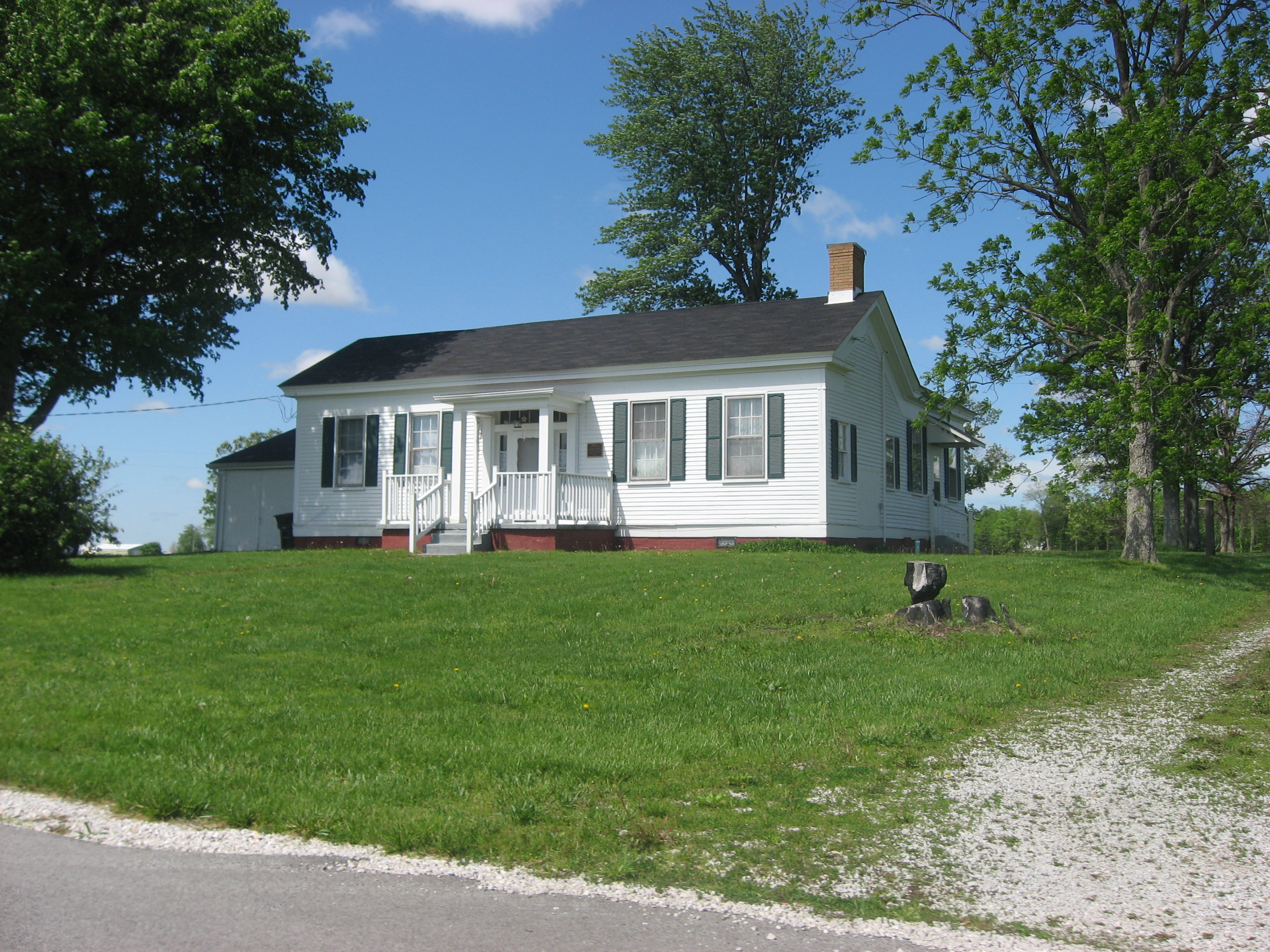 Front of the McCormack-Bowman House, located along Road 200W about 0.5 miles south of its junction with U.S. Route 40 southwest of Clayton in Franklin Township, Hendricks County, Indiana, United States. Built in 1846, it is listed on the National Register of Historic Places.